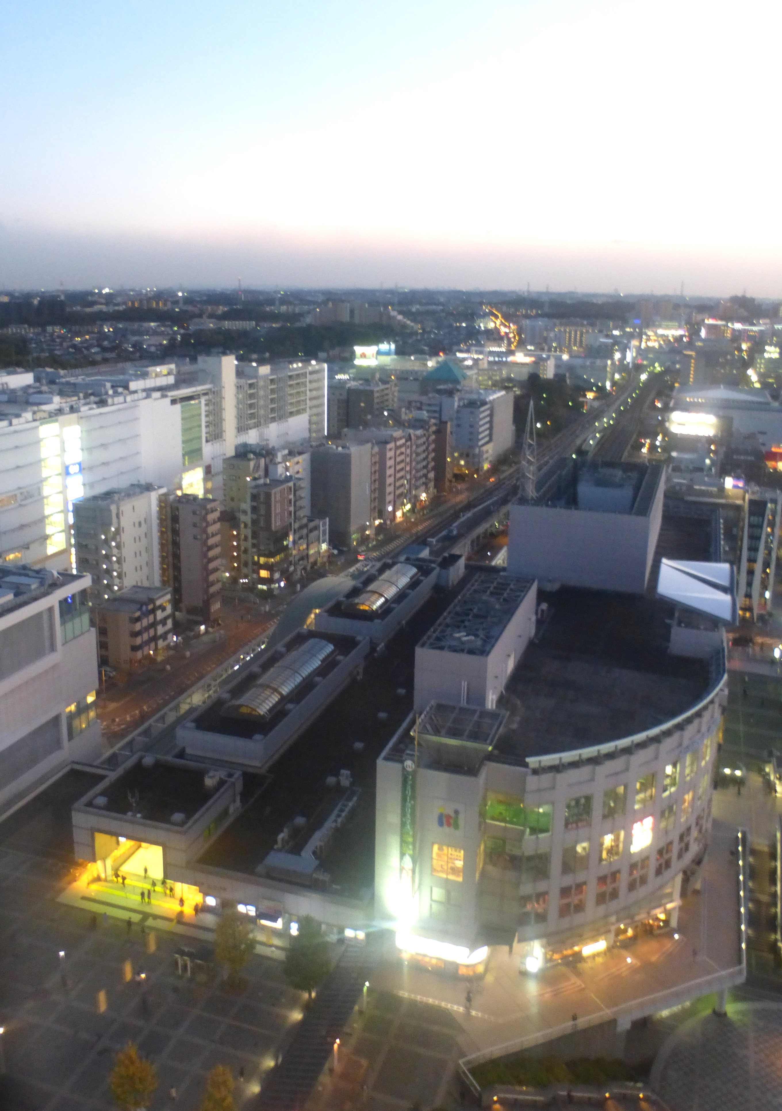 上から見たセンター北駅 (Center-Kita Station as seen from above)